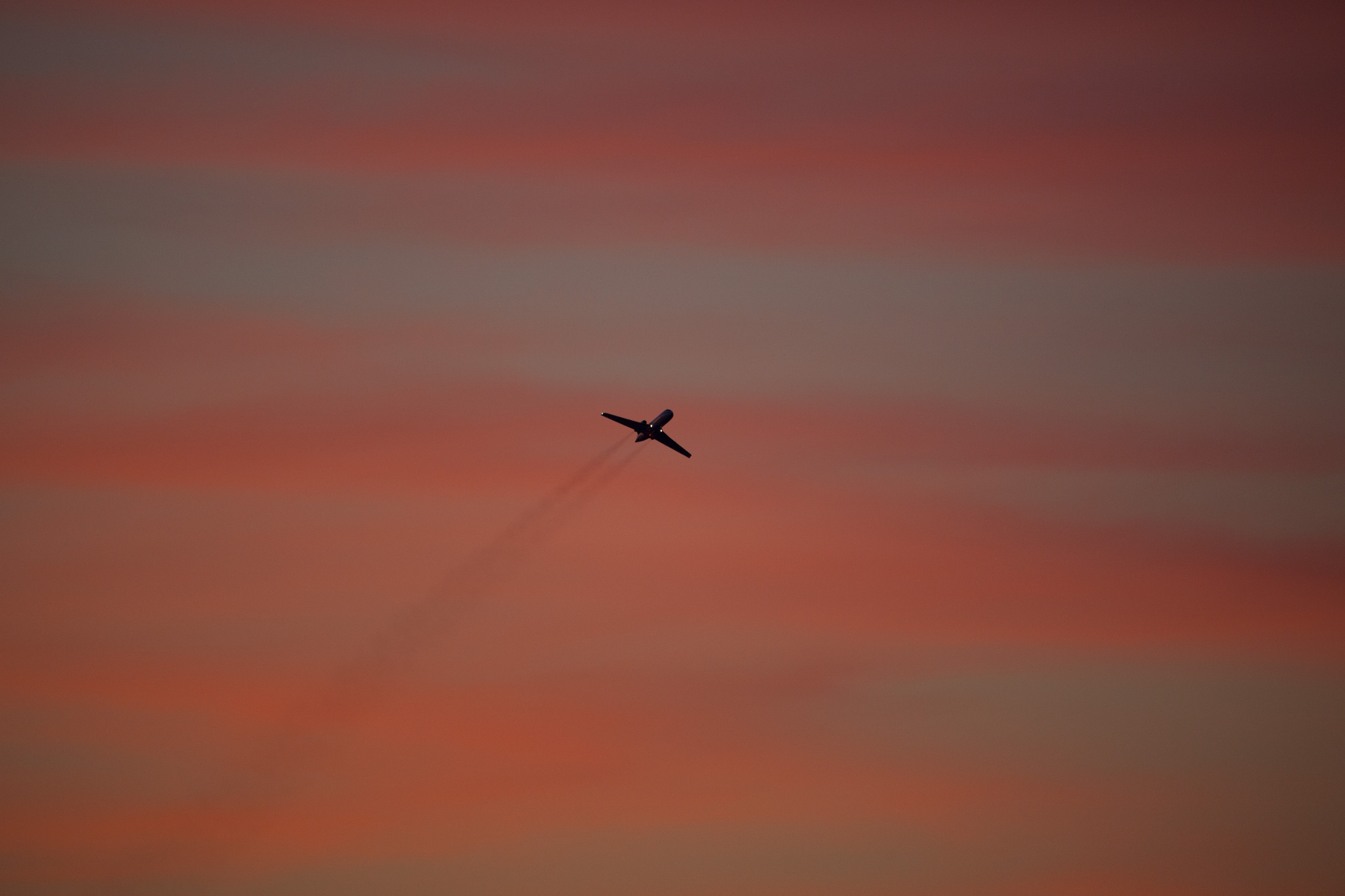 A Shuttle Training Aircraft (STA) performs touch-and-go landings as the sun sets over the Shuttle Landing Facility runway at NASA's Kennedy Space Center in Florida. STS-133 Commander Steve Lindsey and Pilot Eric Boe are flying two Gulfstream II business jets that are modified to mimic the shuttle's handling during the final phase of landing. Practice landings are part of the Terminal Countdown Demonstration Test (TCDT), which provides each shuttle crew and launch team an opportunity to participate in various simulated activities, including equipment familiarization and emergency training at the launch pad. Space shuttle Discovery and its STS-133 crew will deliver the Permanent Multipurpose Module, packed with supplies and critical spare parts, as well as Robonaut 2, the dexterous humanoid astronaut helper, to the International Space Station. Launch is targeted for Nov. 1 at 4:40 p.m.